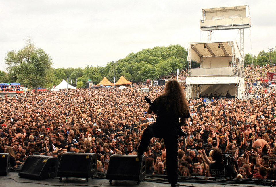 Performing live with Kataklysm at the Heavy Mtl open air festival